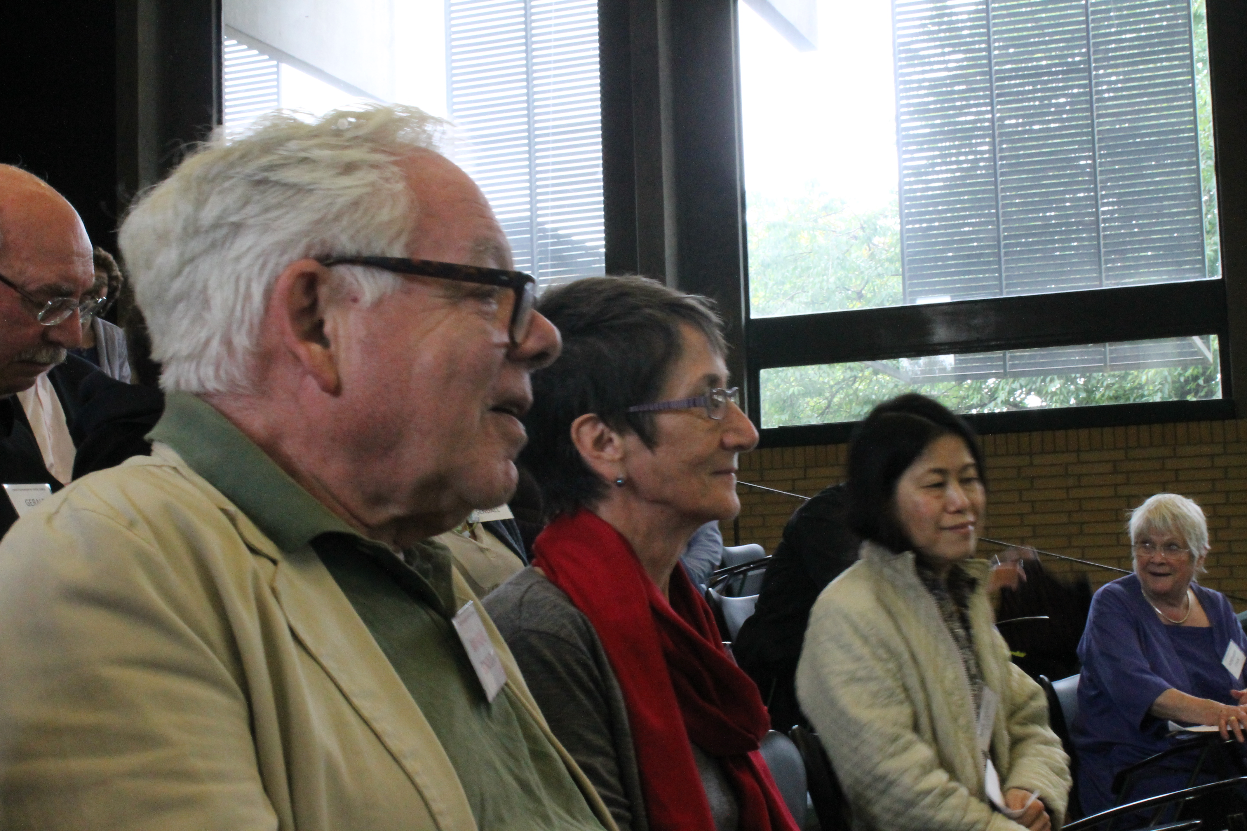 Writer Raymond Sokolov at the Oxford Symposium on Food and Cookery, 2012.